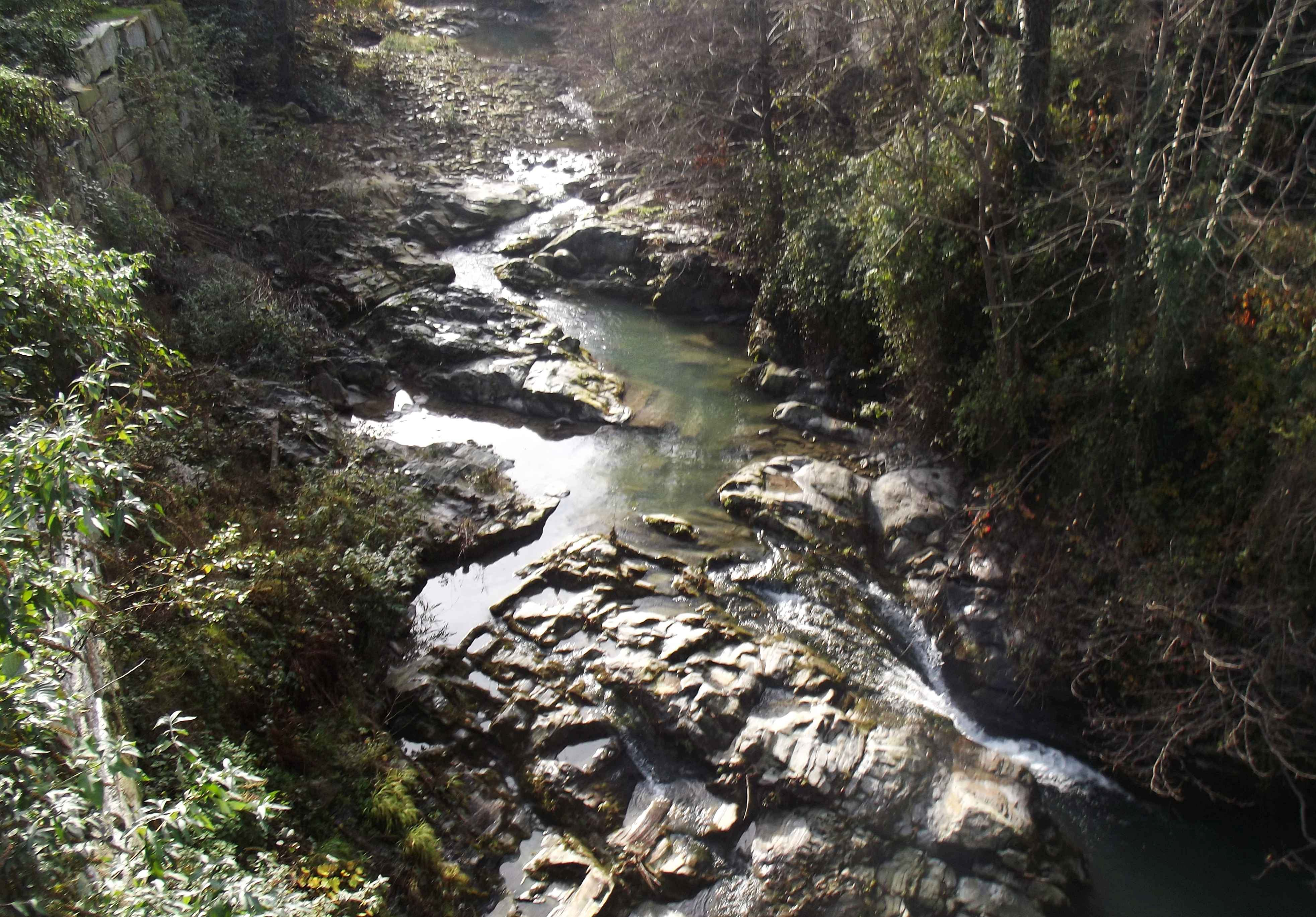 Luserna creek at the border between Luserna S.Giovanni and Lusernetta (TO, Italy)